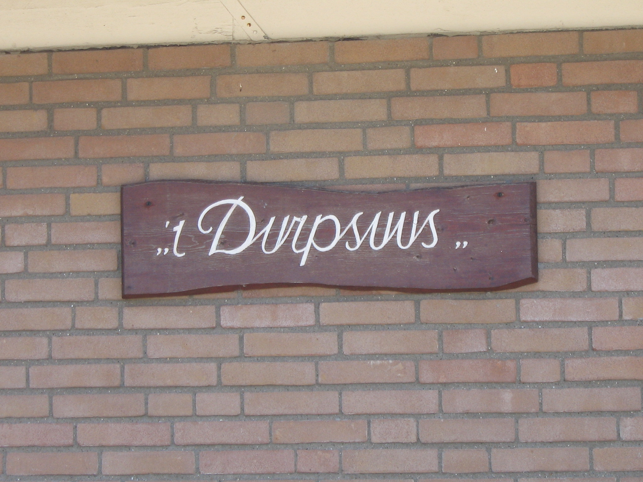 "Durpsuus": Zeelandic language inscription in Driewegen, Borsele community.